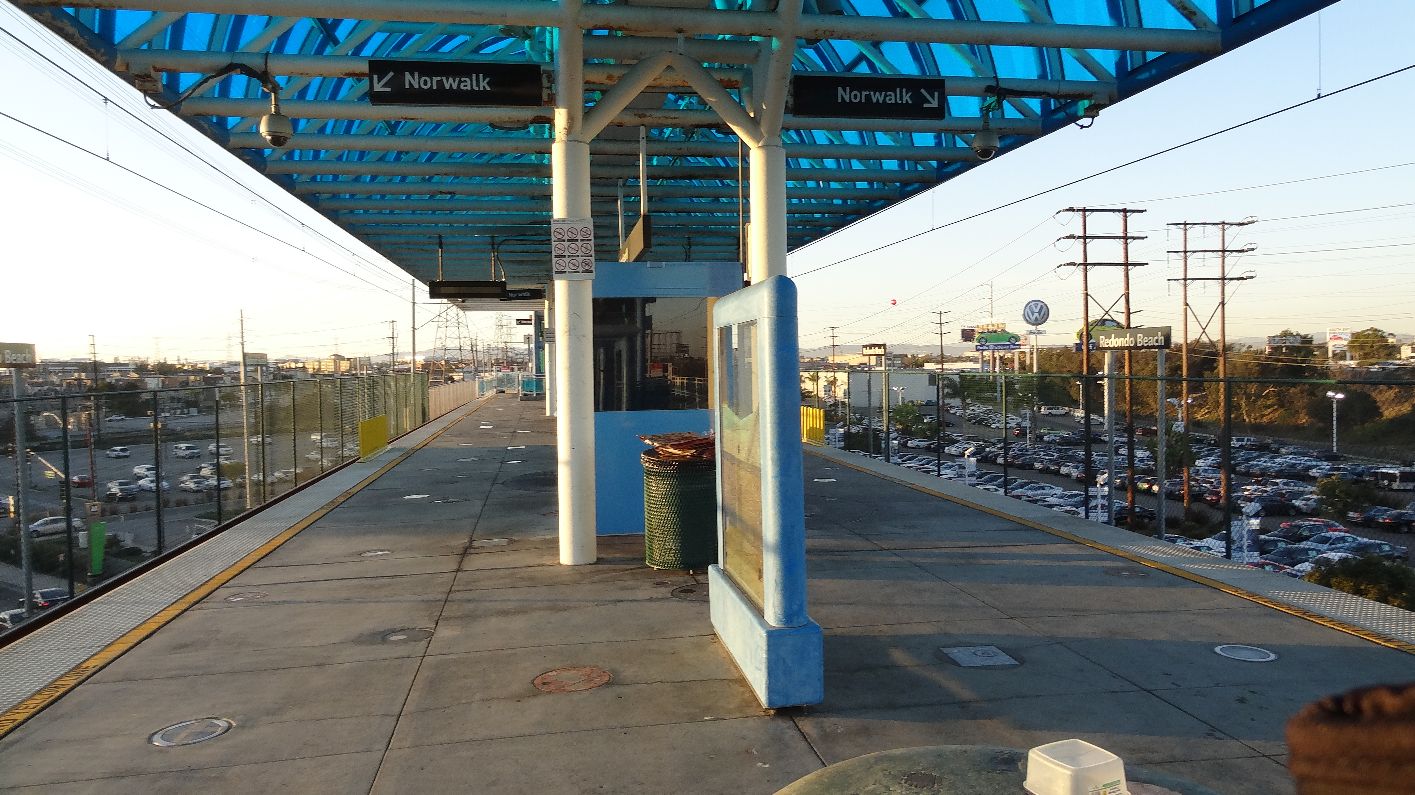 Station platforms